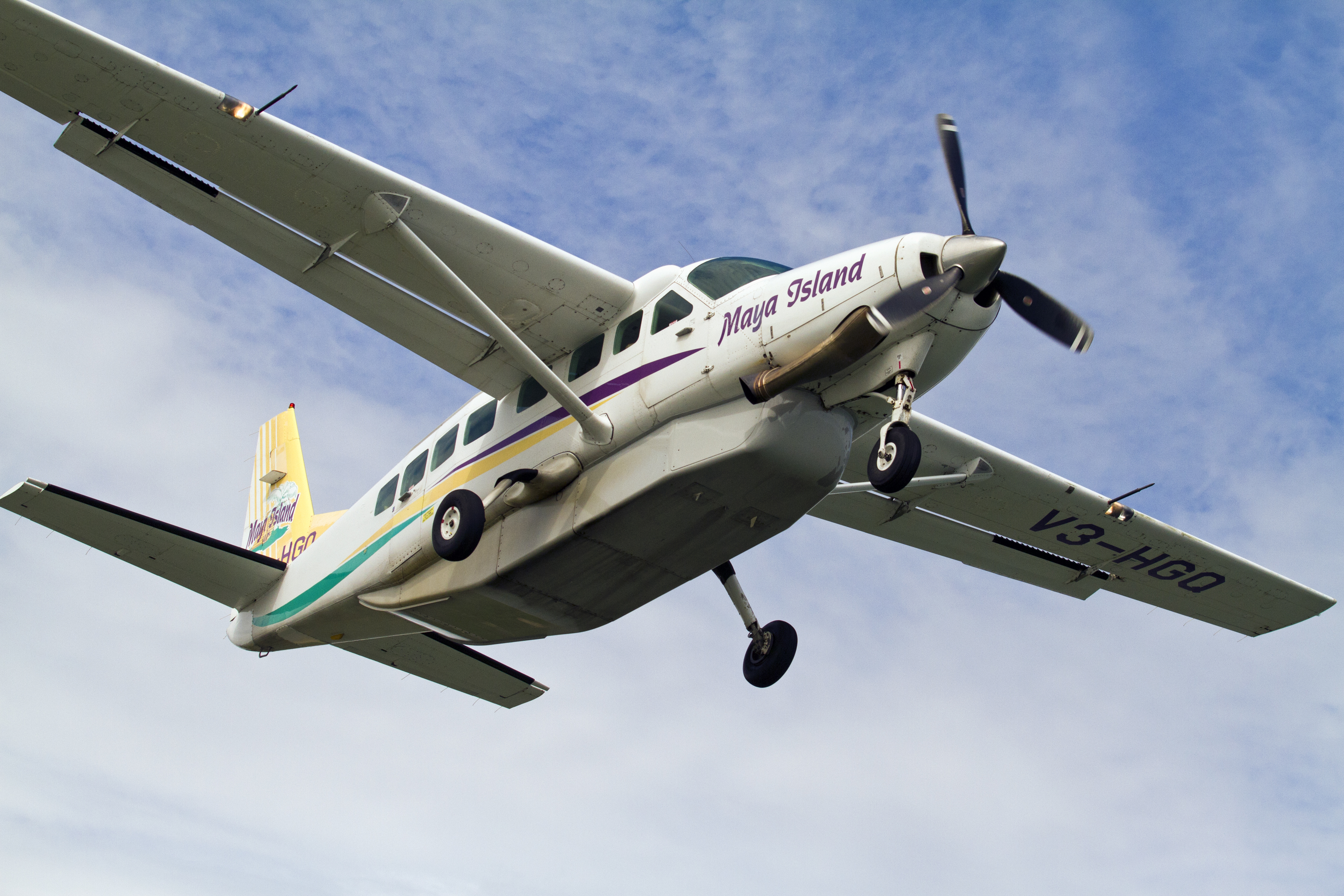 Maya was my last flight to get me to Dangriga airport from Belize City International and back again five days later.